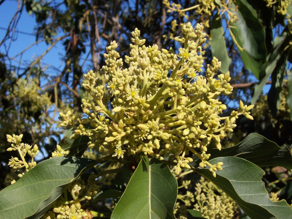 avocado tree (Persea americana)- flowers (Reunion Island)